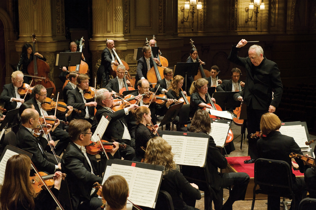 Vancouver Symphony Orchestra with Bramwell Tovey